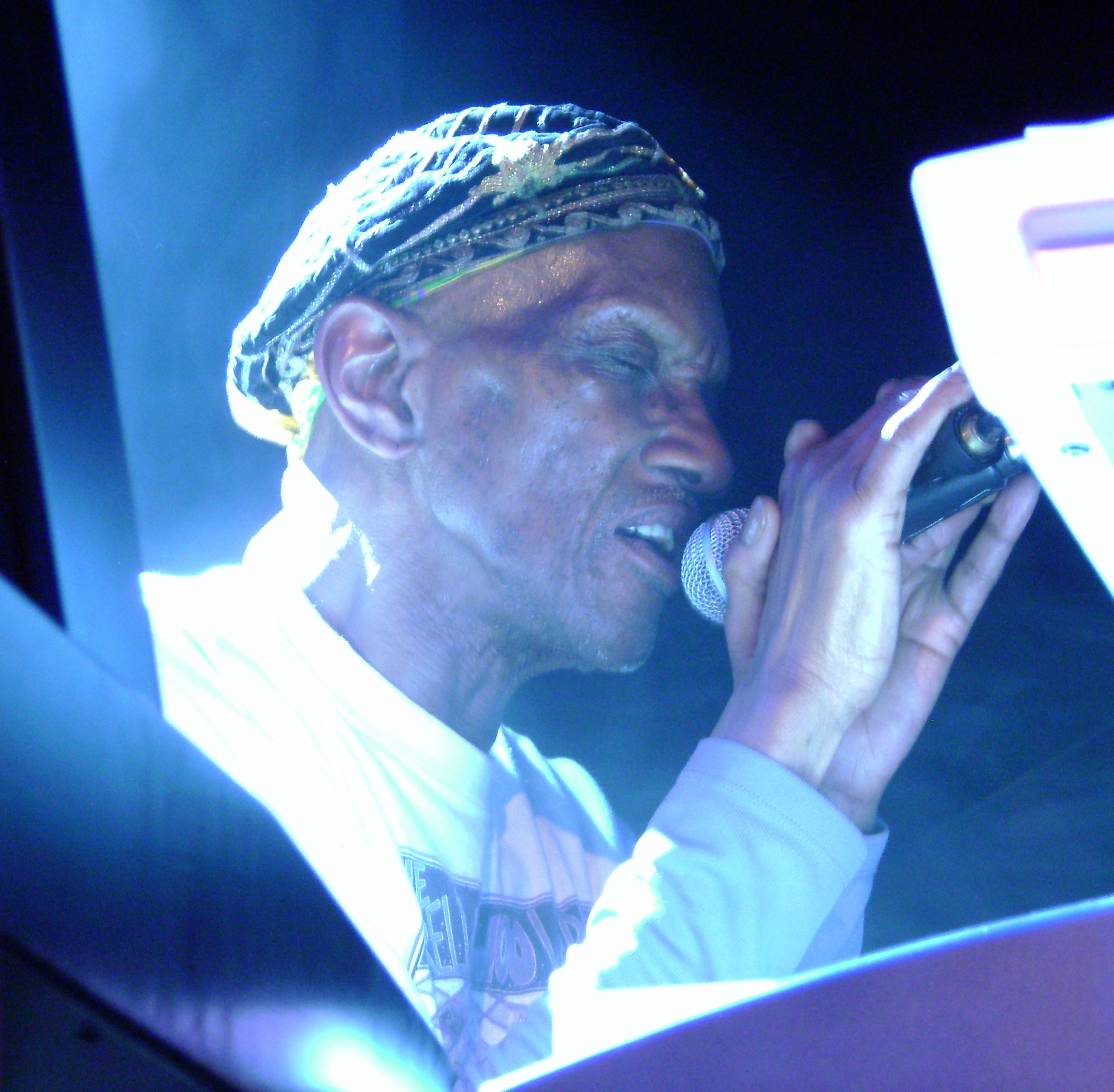 Bernie Worrell. Concert with Socialibrium, Innsbruck, 2009